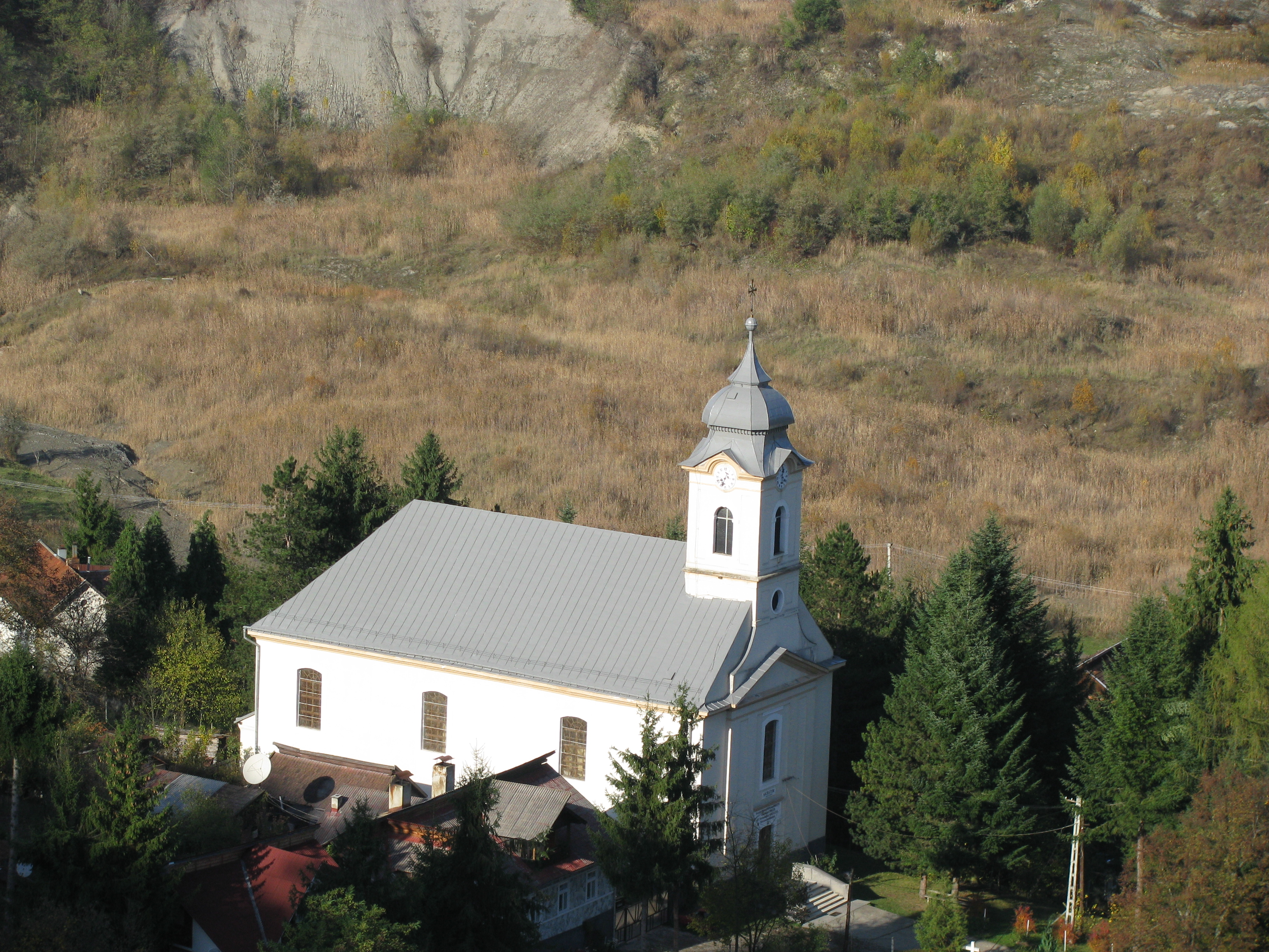 the Roman Catholic Church in Rónaszék/Coştiui